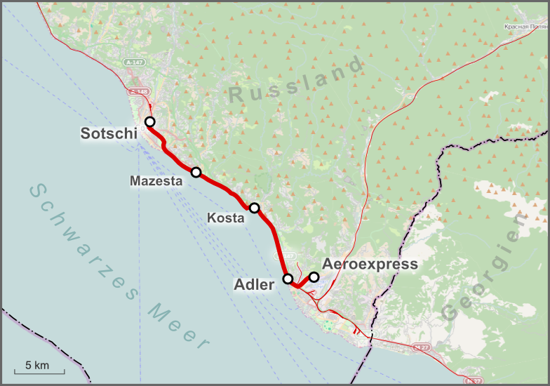 Aeroexpress trains routes in Sochi region